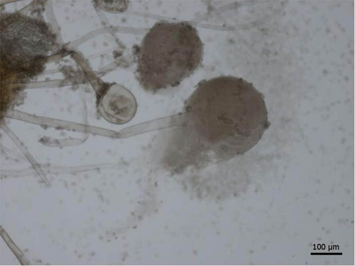 Rhizopus stolonifer is a species of fungi of the family Mucoraceae